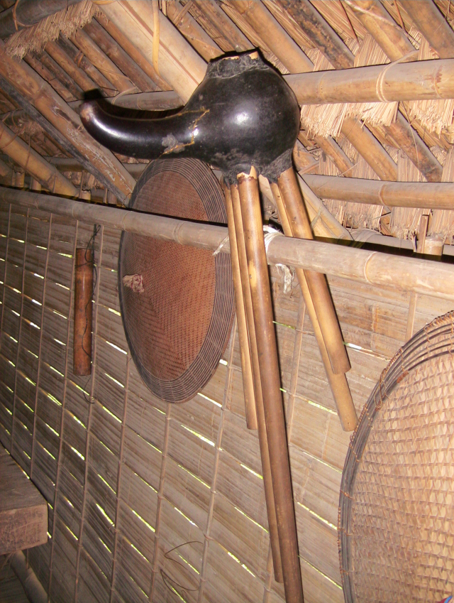 Ding nam, a musical instruments of E De people in Vietnam.